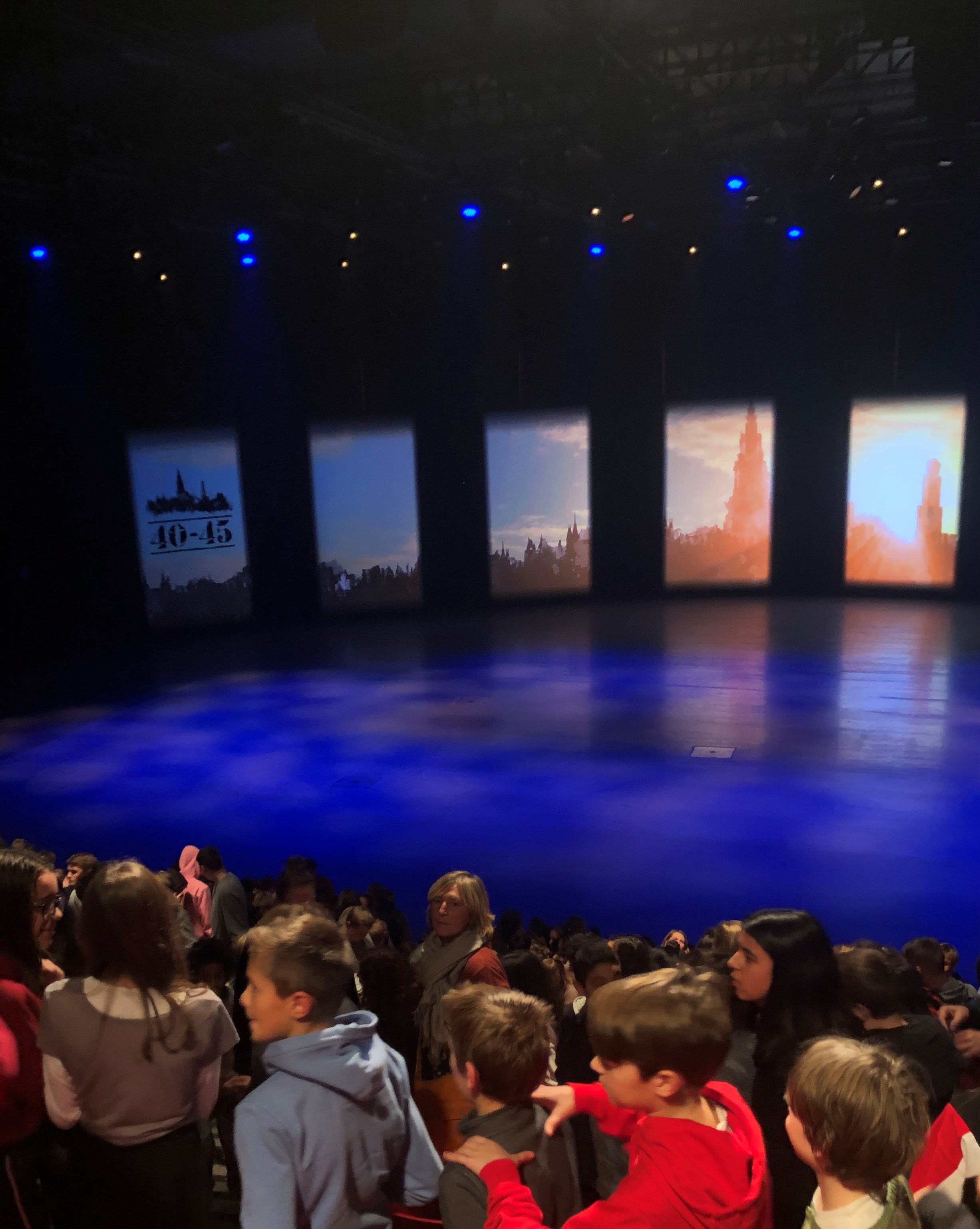 The hall right after the musical 40-45 in the Studio 100 Pop-Up Theatre on November 15, 2019 (performance for schools).